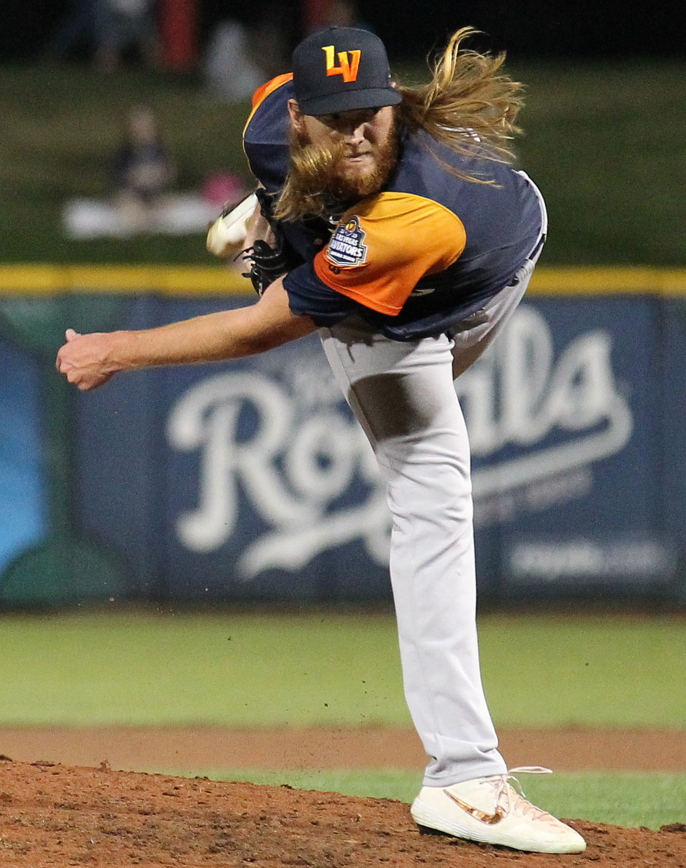 AJ Puk with the Las Vegas Aviators during a 2019 game at Werner Park in Nebraska